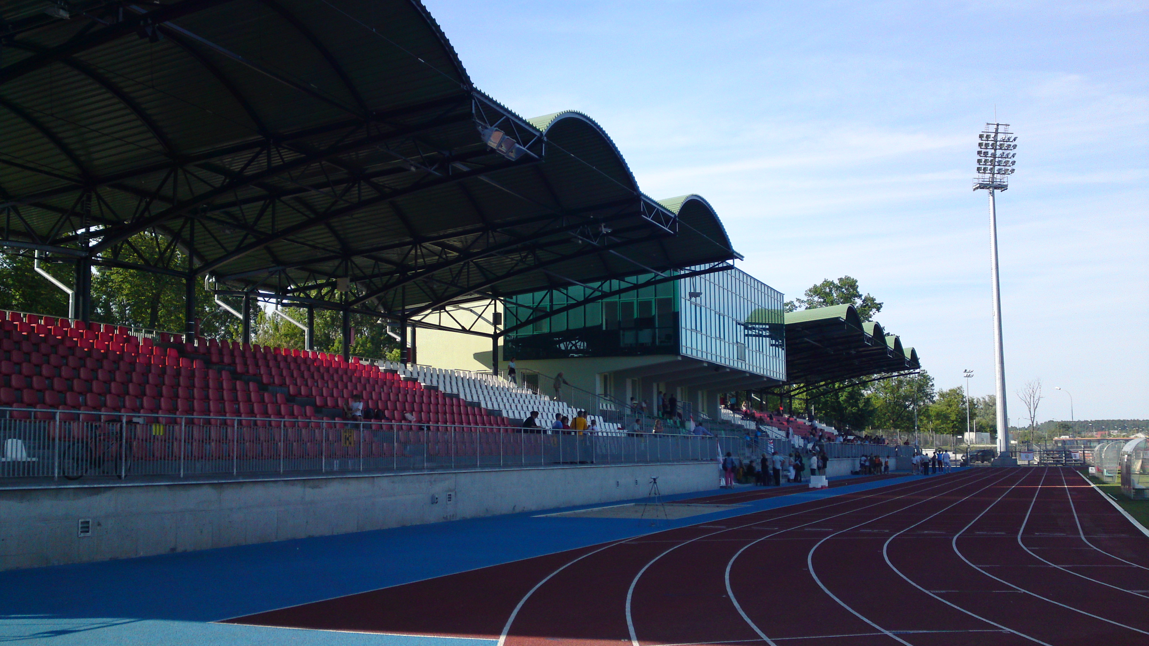 Photo of the stadium in Lomza during local athletic contests.